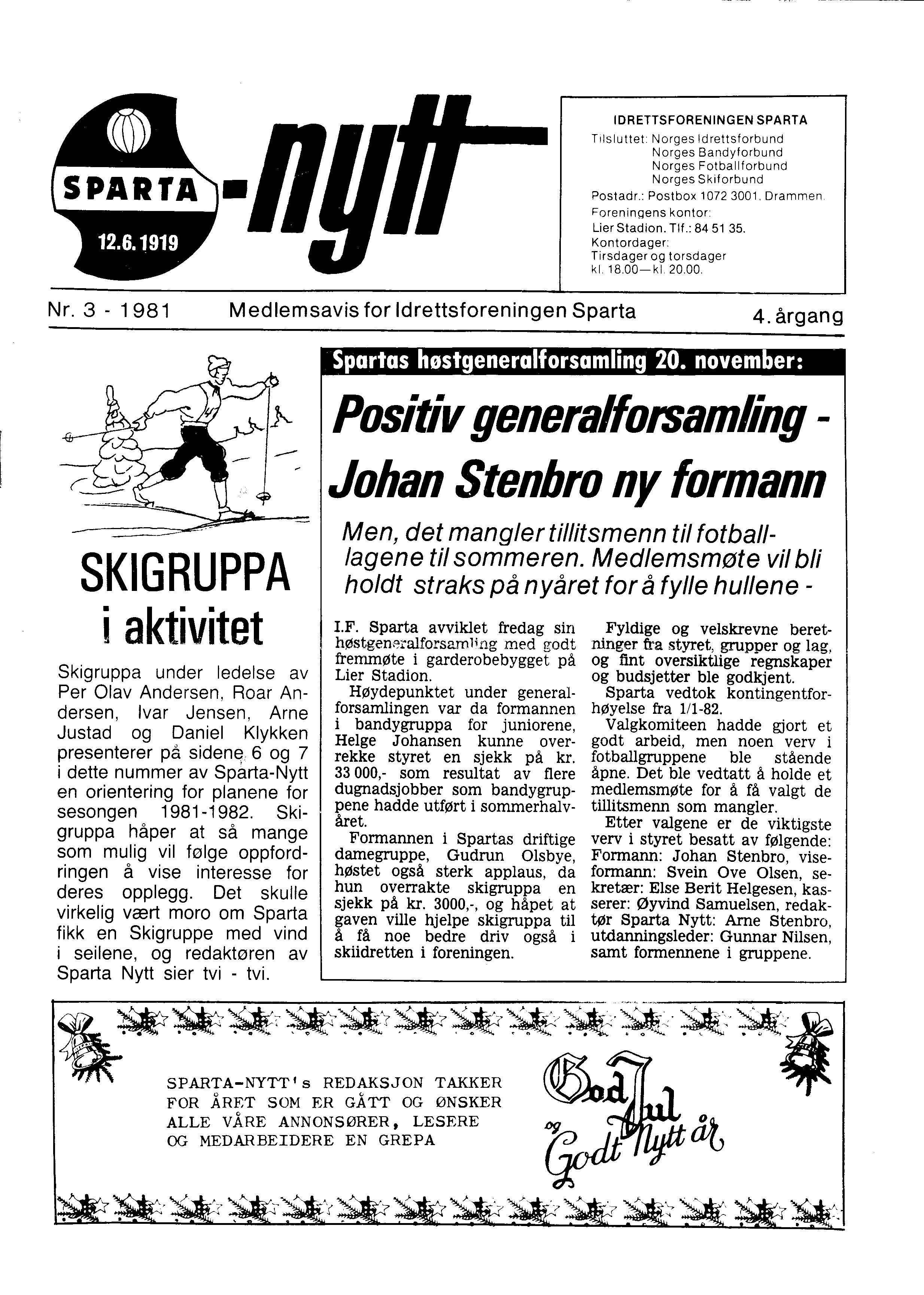 "Sparta-nytt". Idrettsforeningen Sparta's club newspaper 1981